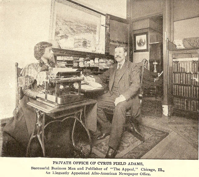 Caption reads: "PRIVATE OFFICE OF CYRUS FIELD ADAMS, Successful Business Man and Publisher of "The Appeal," Chicago, Ill., An Elegantly Appointed Afro-American Newspaper Office."